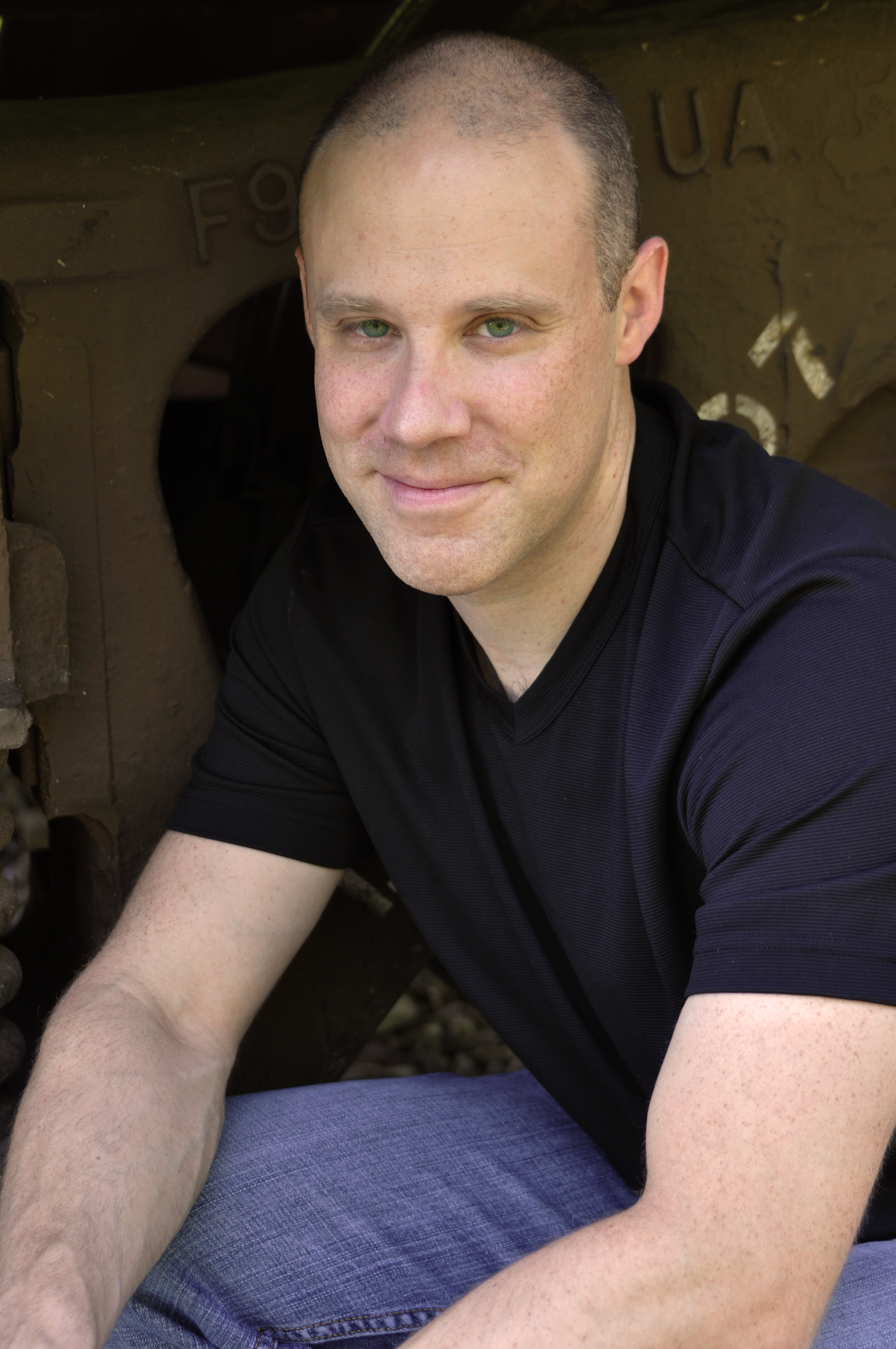 Alexander Brandon posing for a company picture (Funky Rustic, LLC).